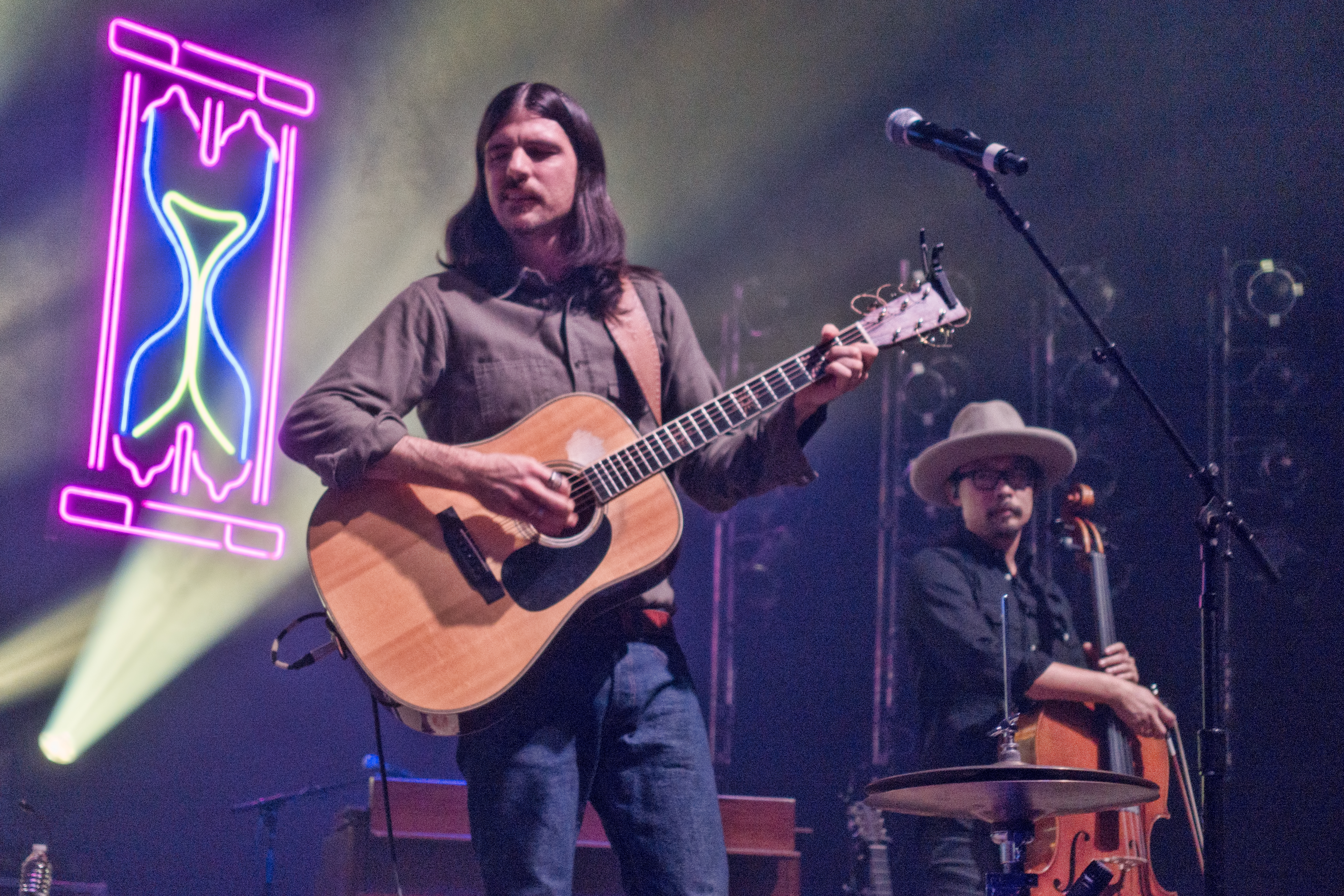 Seth Avett with an acoustic guitar, performing at the Chicago Theatre on November 10, 2017.